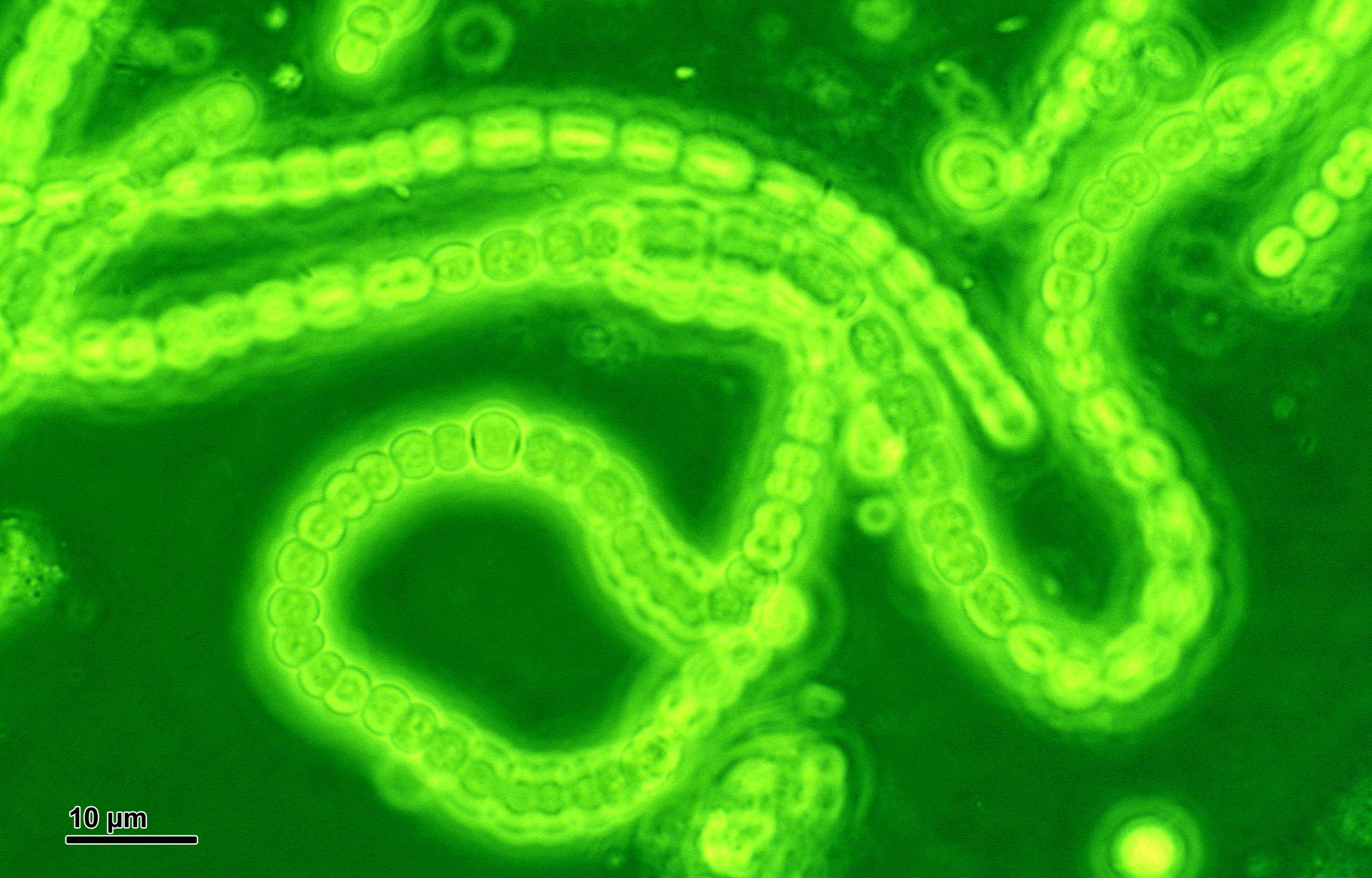 Cyanobacteria (Cyanobacteria): Mixture; native preparation; green filter. Optical microscopy technique: Negative phase contrast. Magnification: 2400x (for picture width 26 cm ~ A4 format).